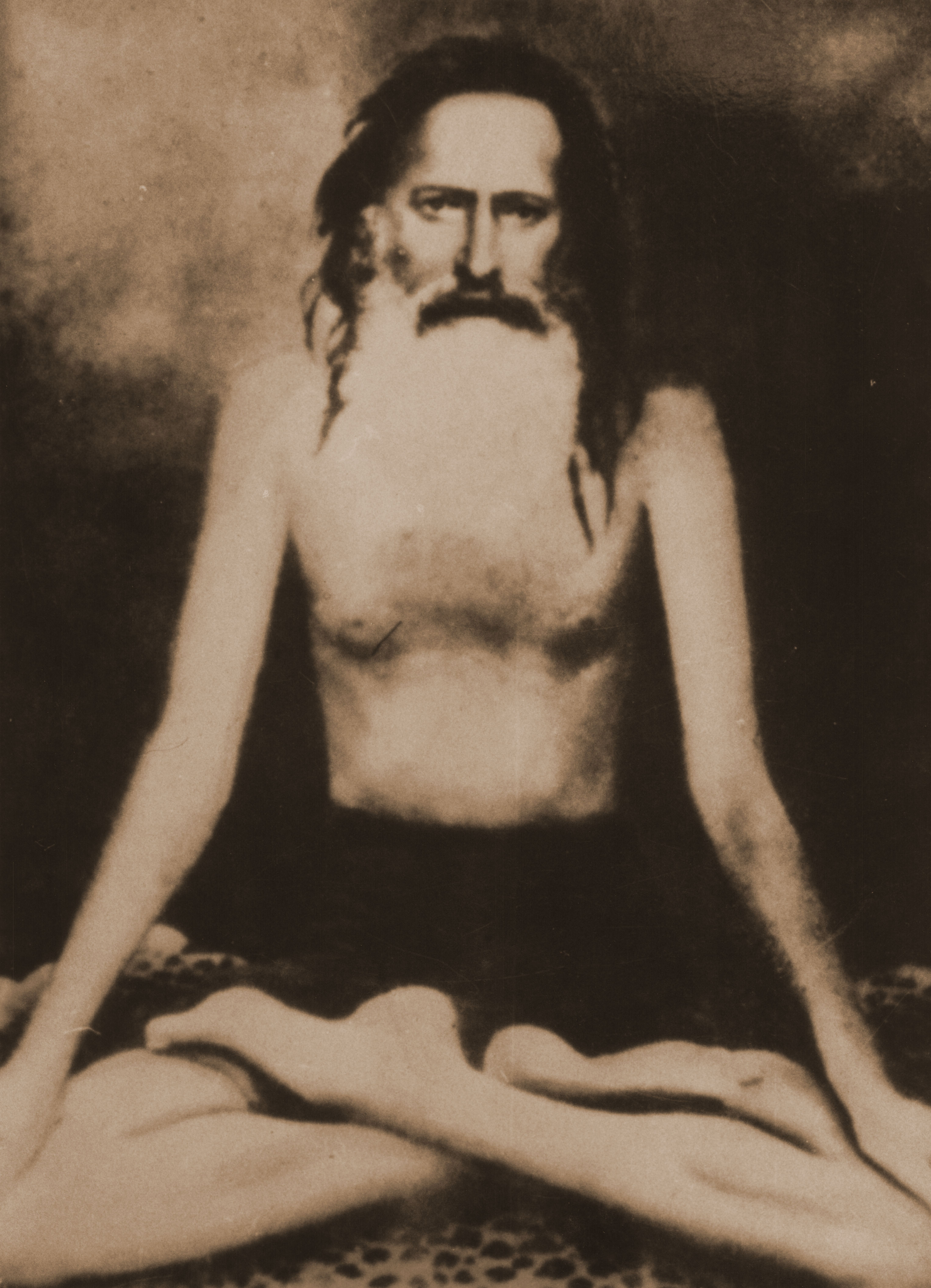 Shri Guru Purnananda Paramahansa